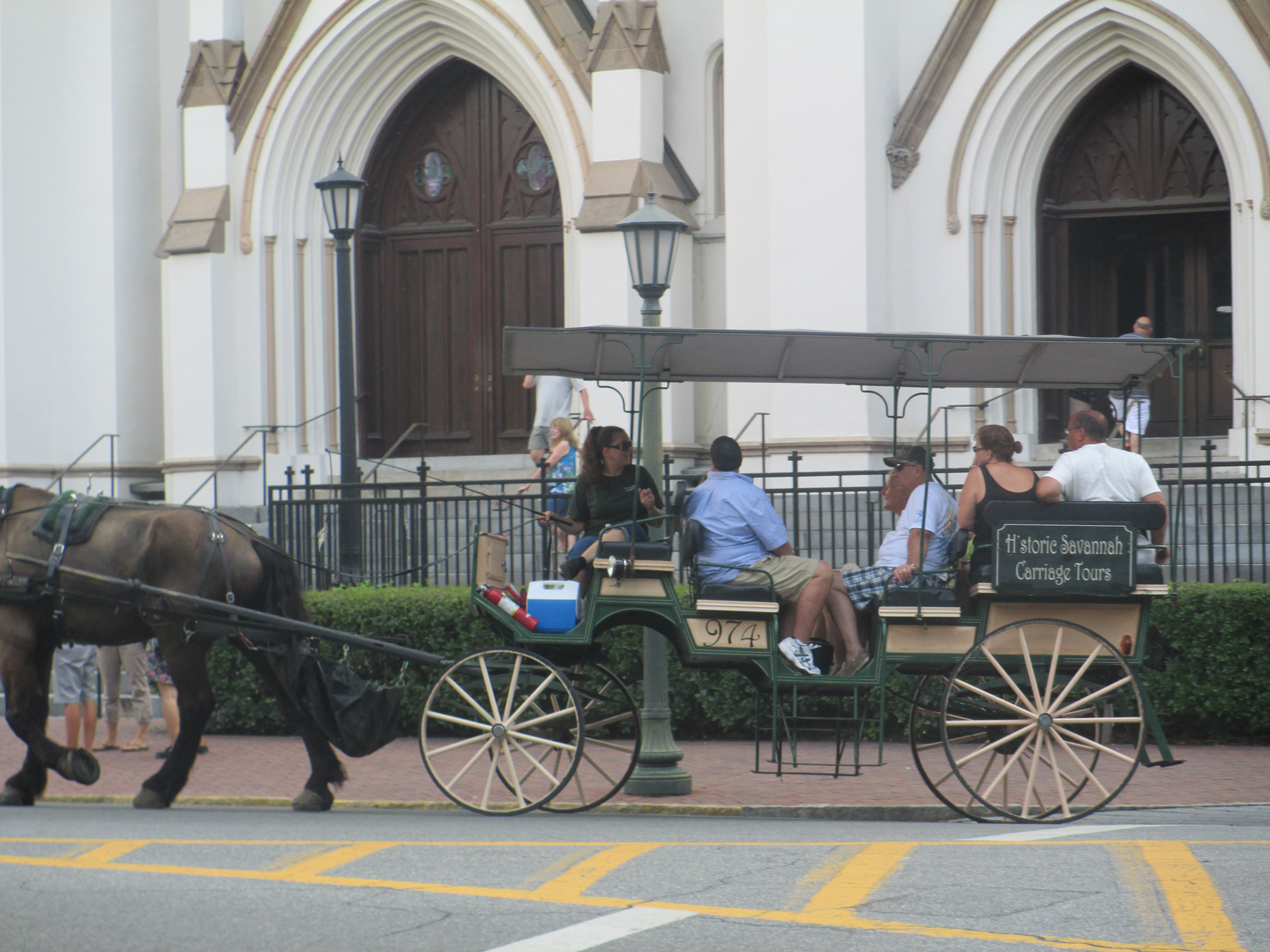 I took photo of carriage tour in Savannah, GA, with Canon camera.